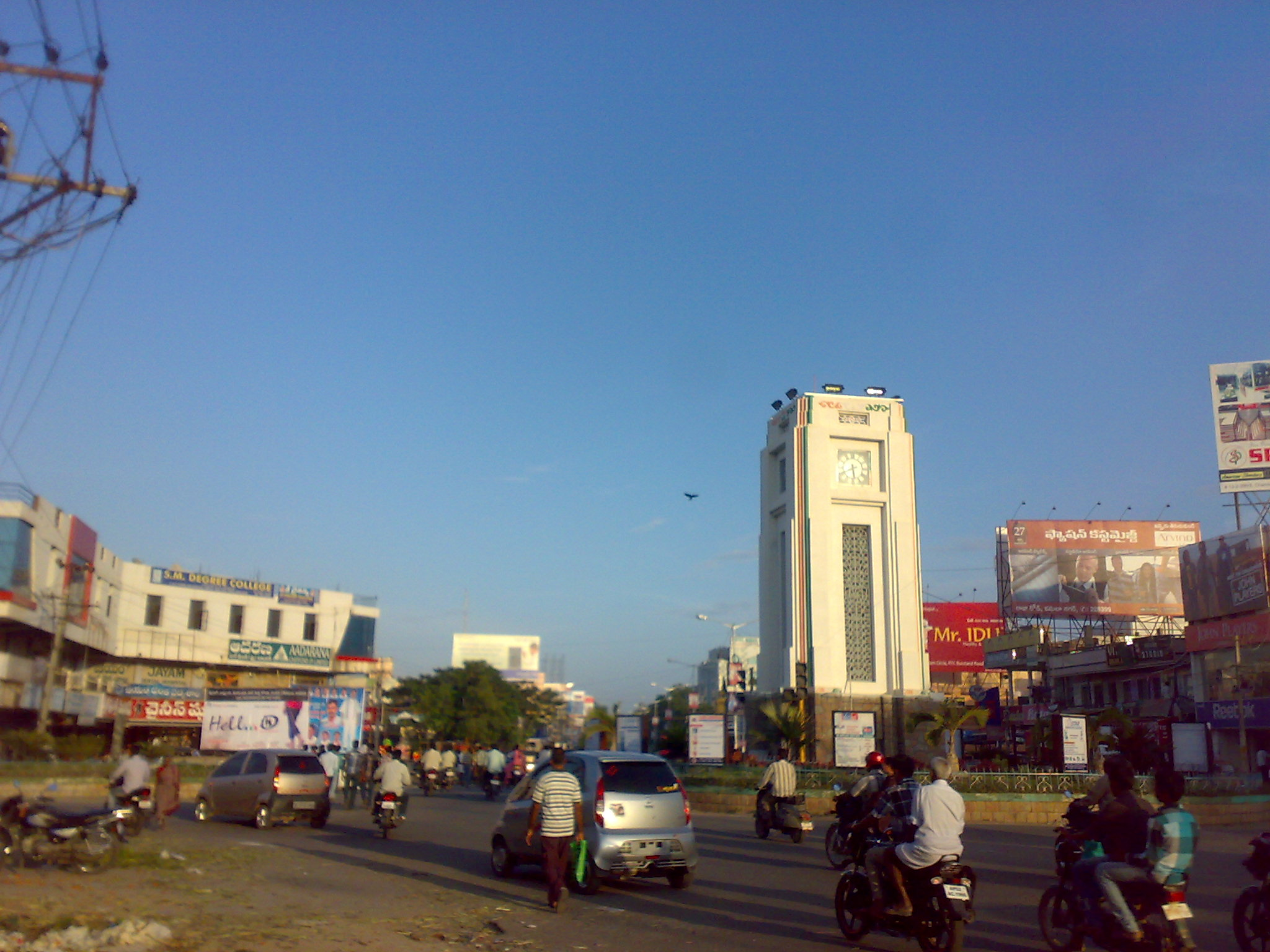 Anantapur Clock Tower